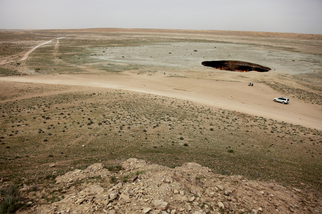 The Door to Hell / Turkmenistan, Darvaza